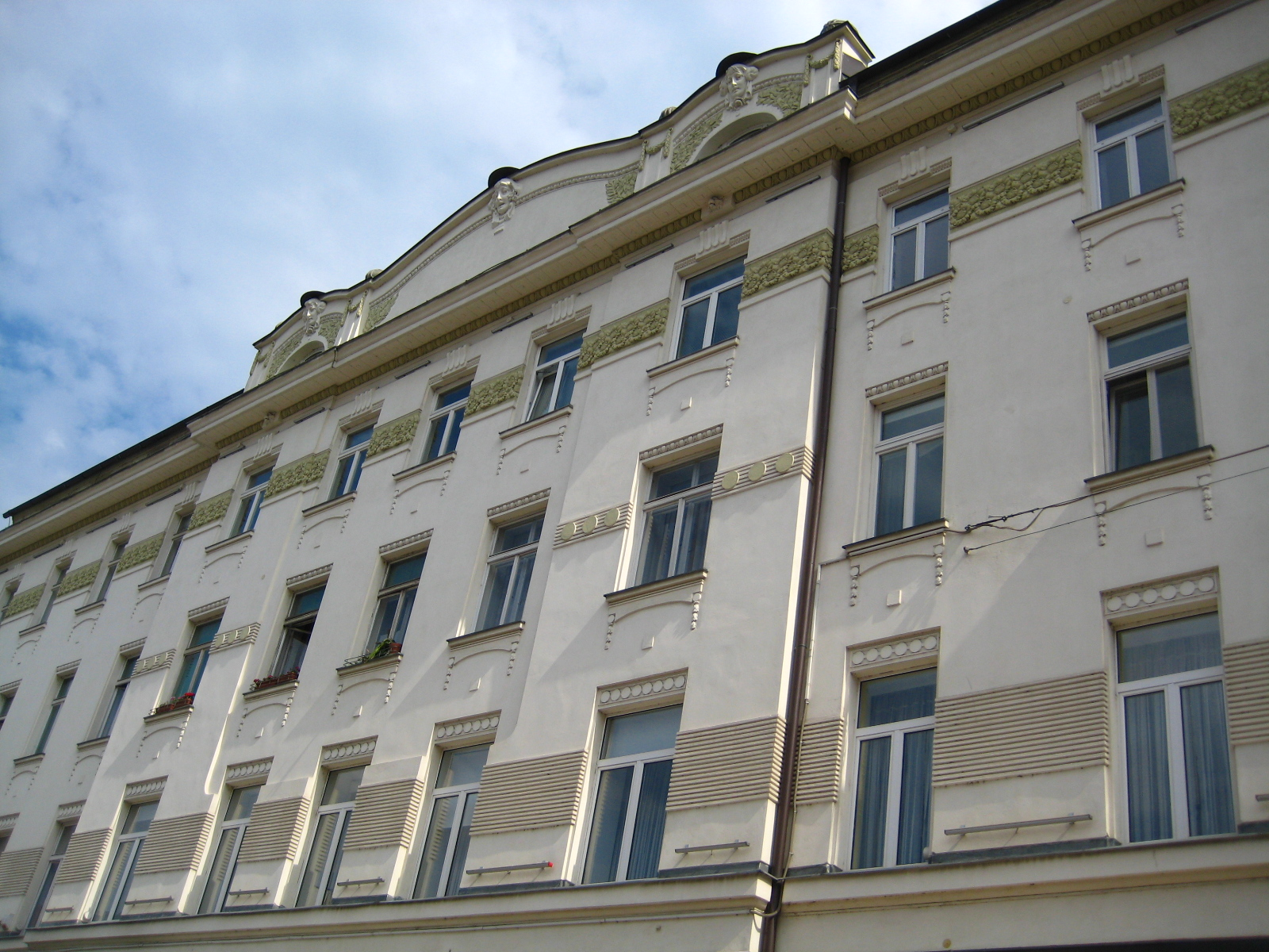 Grand Hotel Union, 1908.